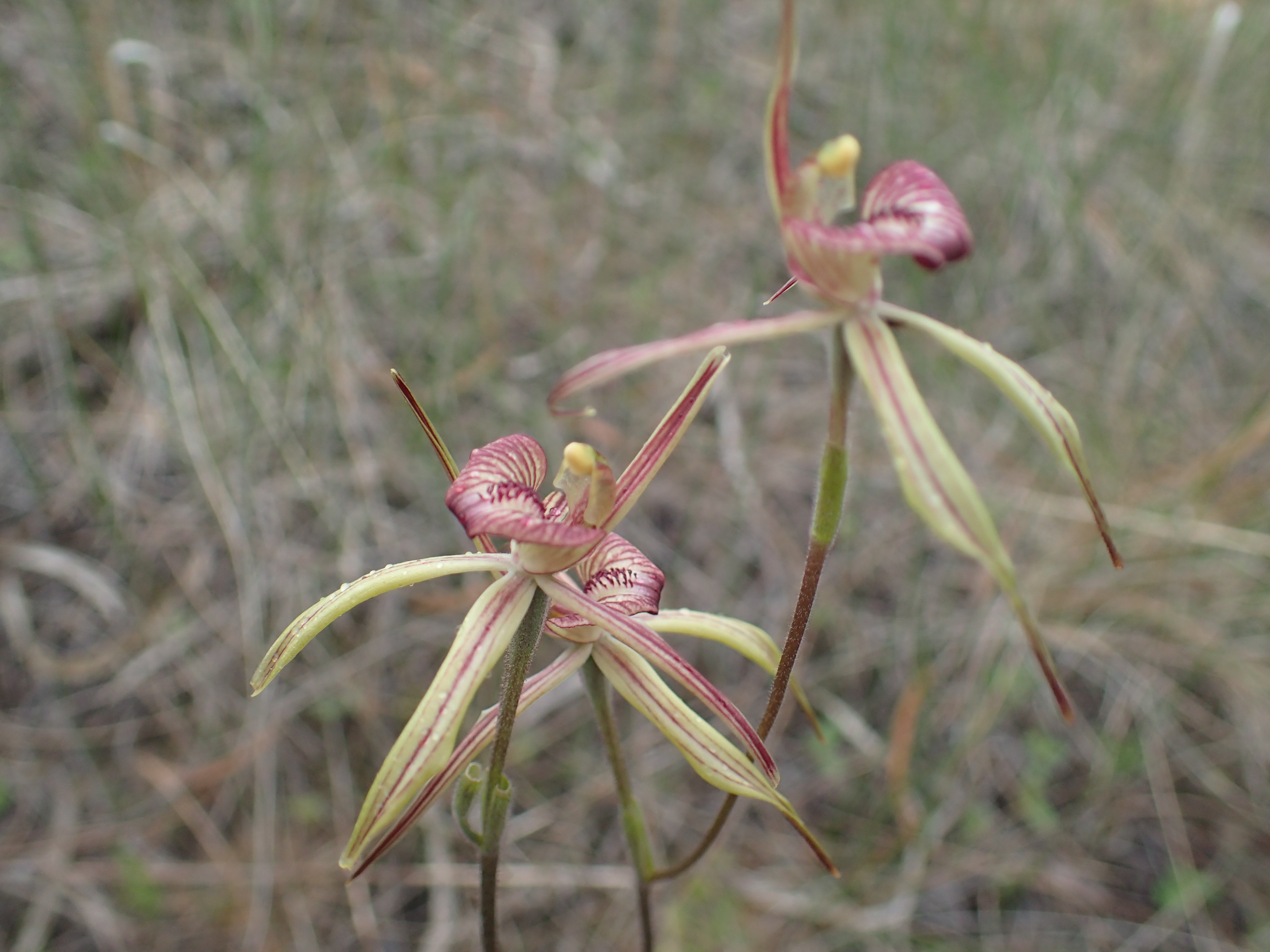 Caladenia doutchiae growing near the Catholic cemetery in Beverley, Western Australia